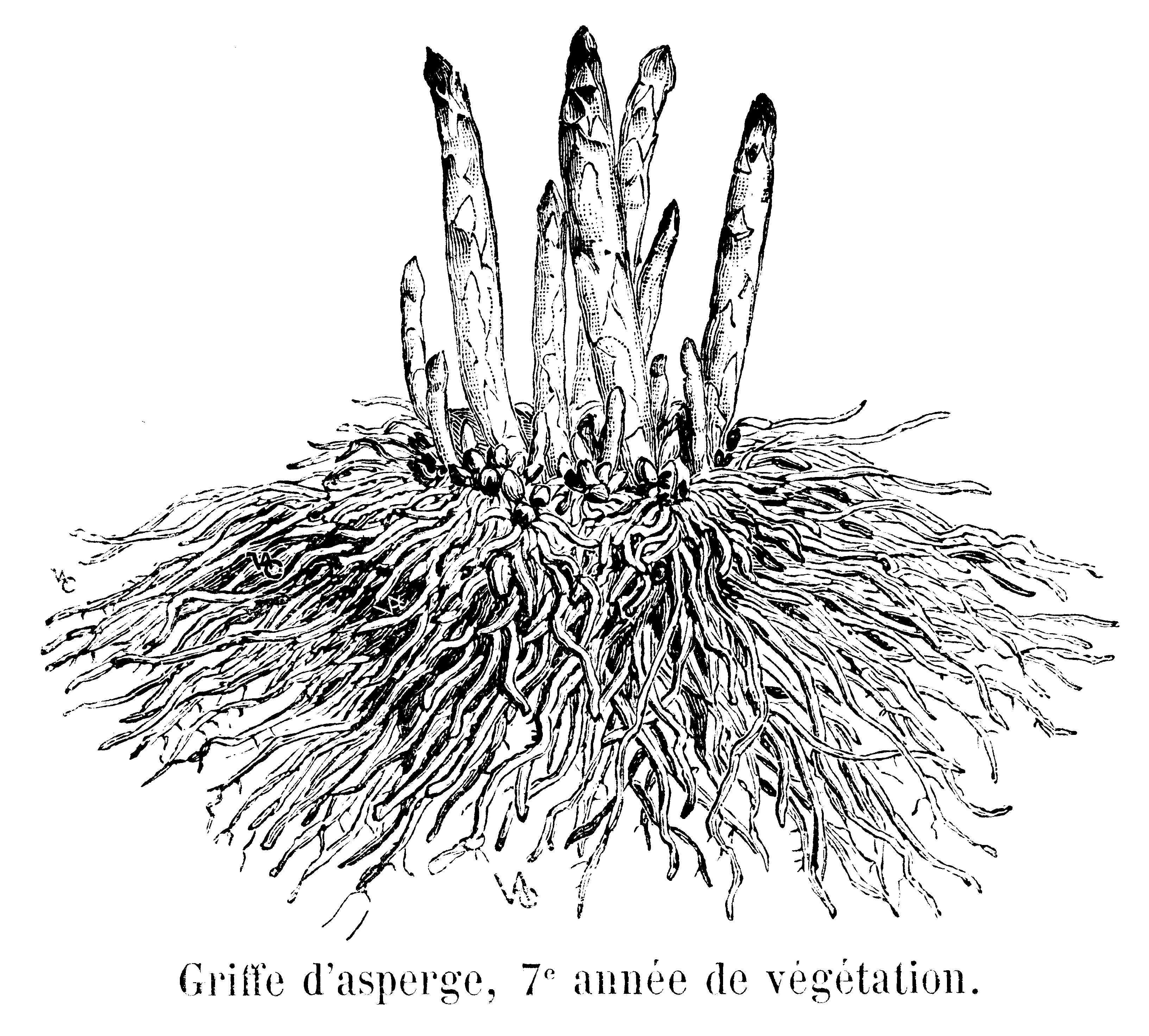 Vilmorin-Andrieux & Cie, 1904. Les plantes potagères. Description et culture des principaux légumes des climats tempérés. ed. 3. Paris, Vilmorin-Andrieux. fig., XX-804 p.